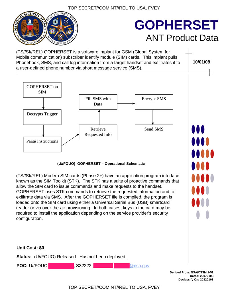 GOPHERSET - Software implant for GSM subscriber identity module (SIM) cards.